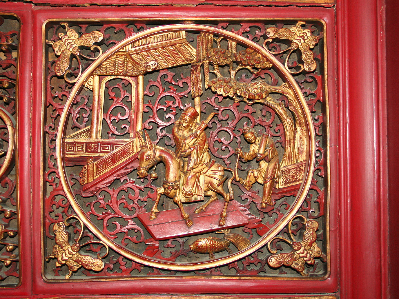 Enghien (Belgium), Empain château. – Lacquered panel in the Chinese room.